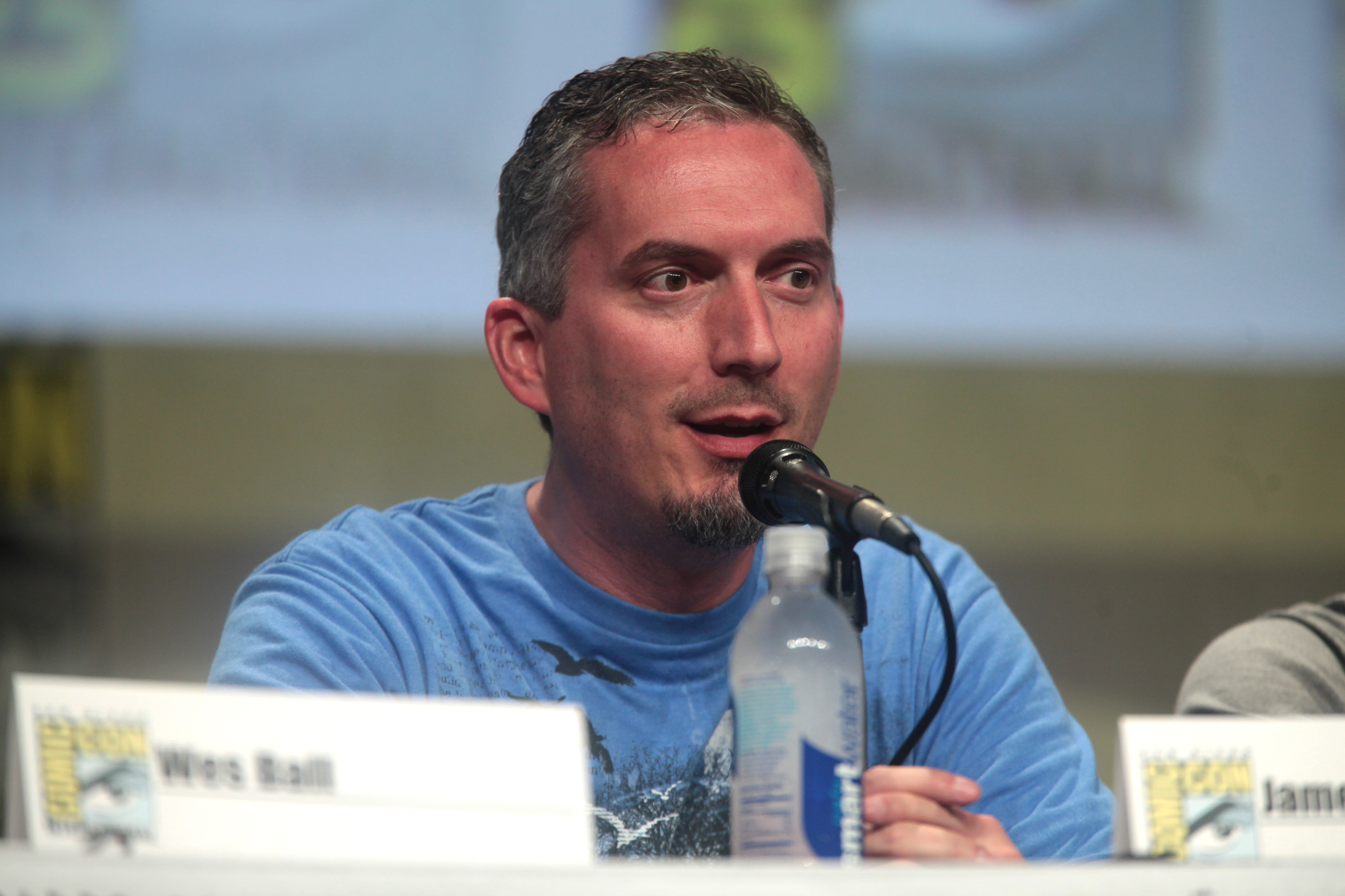 James Dashner speaking at the 2014 San Diego Comic Con International, for "The Maze Runner", at the San Diego Convention Center in San Diego, California.